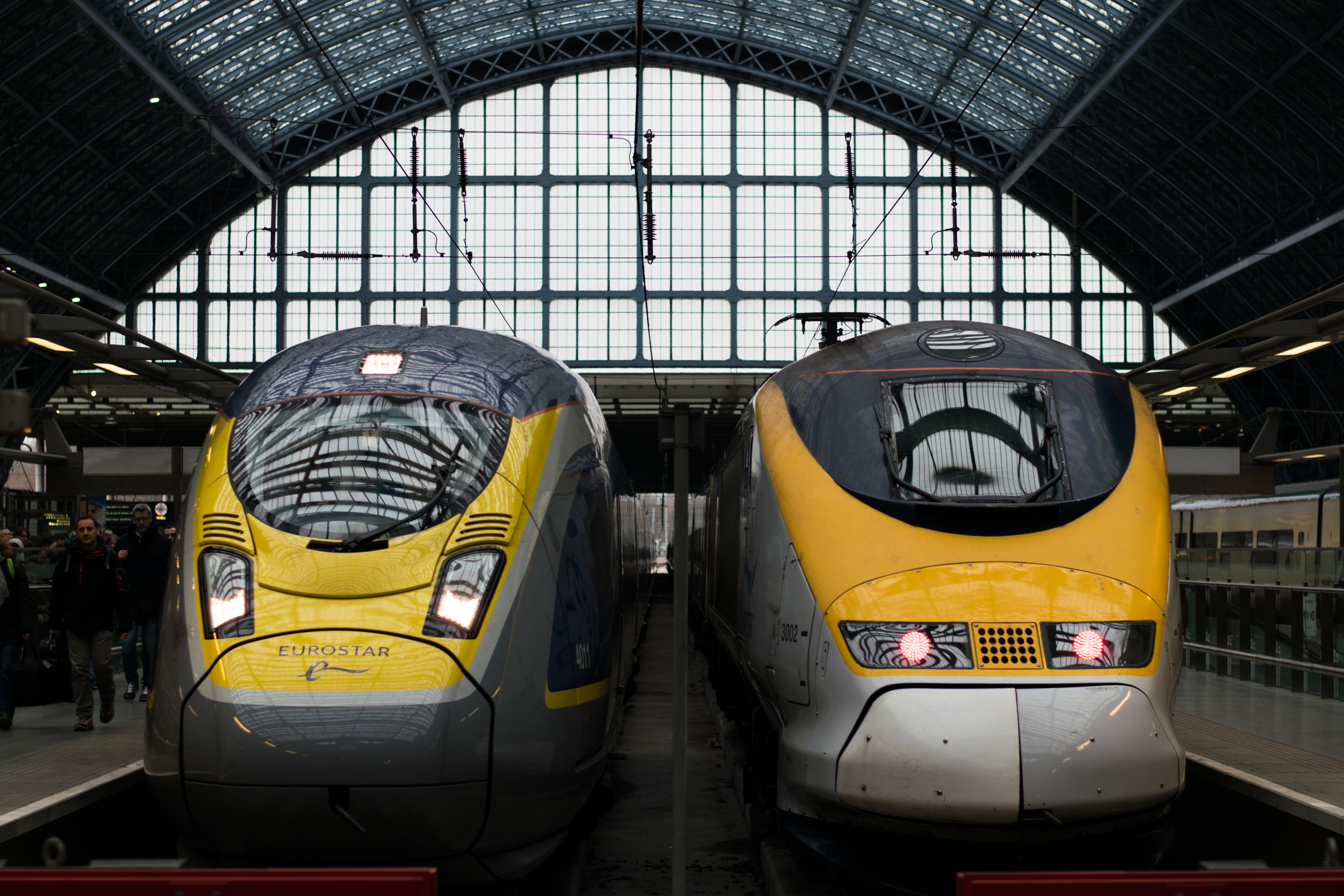 Two Eurostar trains in St Pancras railway station (London, United Kingdom).